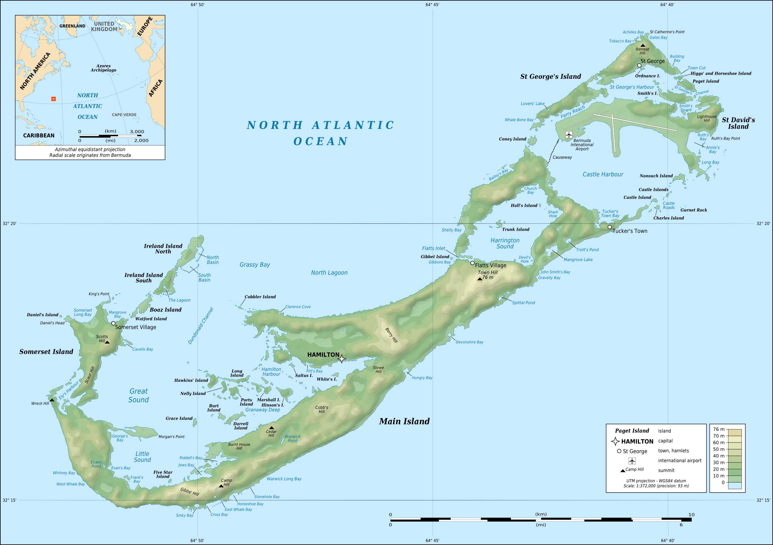 Topographic map of Bermuda Islands, Great Britain, in the North Atlantic Ocean.Note: The background map is a raster image embedded in the SVG file.